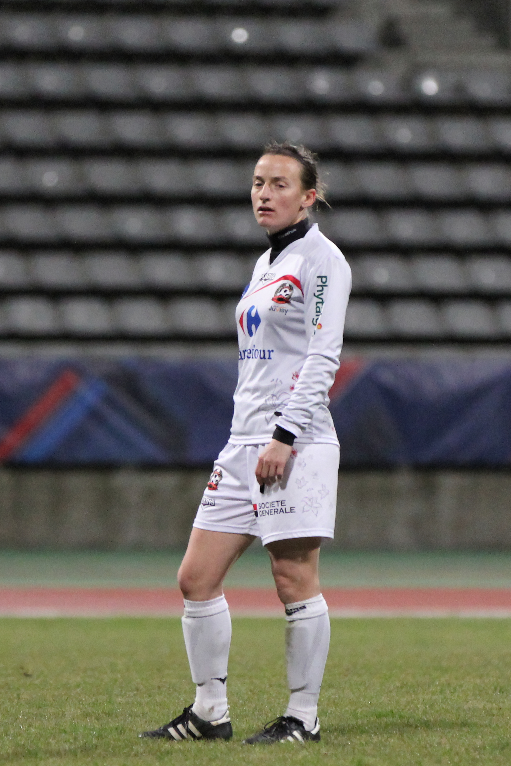 PSG-Juvisy, december 9th, 2012.